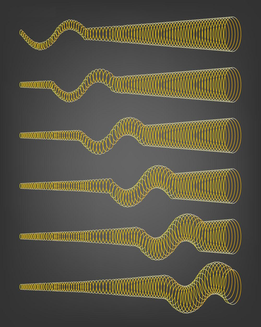 PIA19822: Magnetic Black Hole Waves This cartoon shows how magnetic waves, called Alfven S-waves, propagate outward from the base of black hole jets. The jet is a flow of charged particles, called a plasma, which is launched by a black hole. The jet has a helical magnetic field (yellow coil) permeating the plasma. The waves then travel along the jet, in the direction of the plasma flow, but at a velocity determined by both the jet's magnetic properties and the plasma flow speed. The BL Lac jet examined in a new study is several light-years long, and the wave speed is about 98 percent the speed of light.